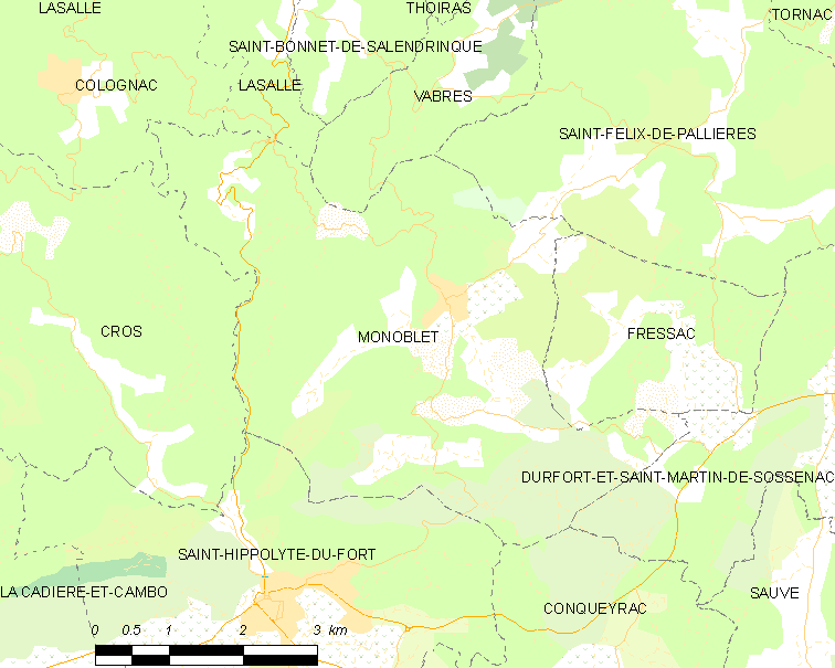 Map commune FR insee code 30172.png - Monoblet